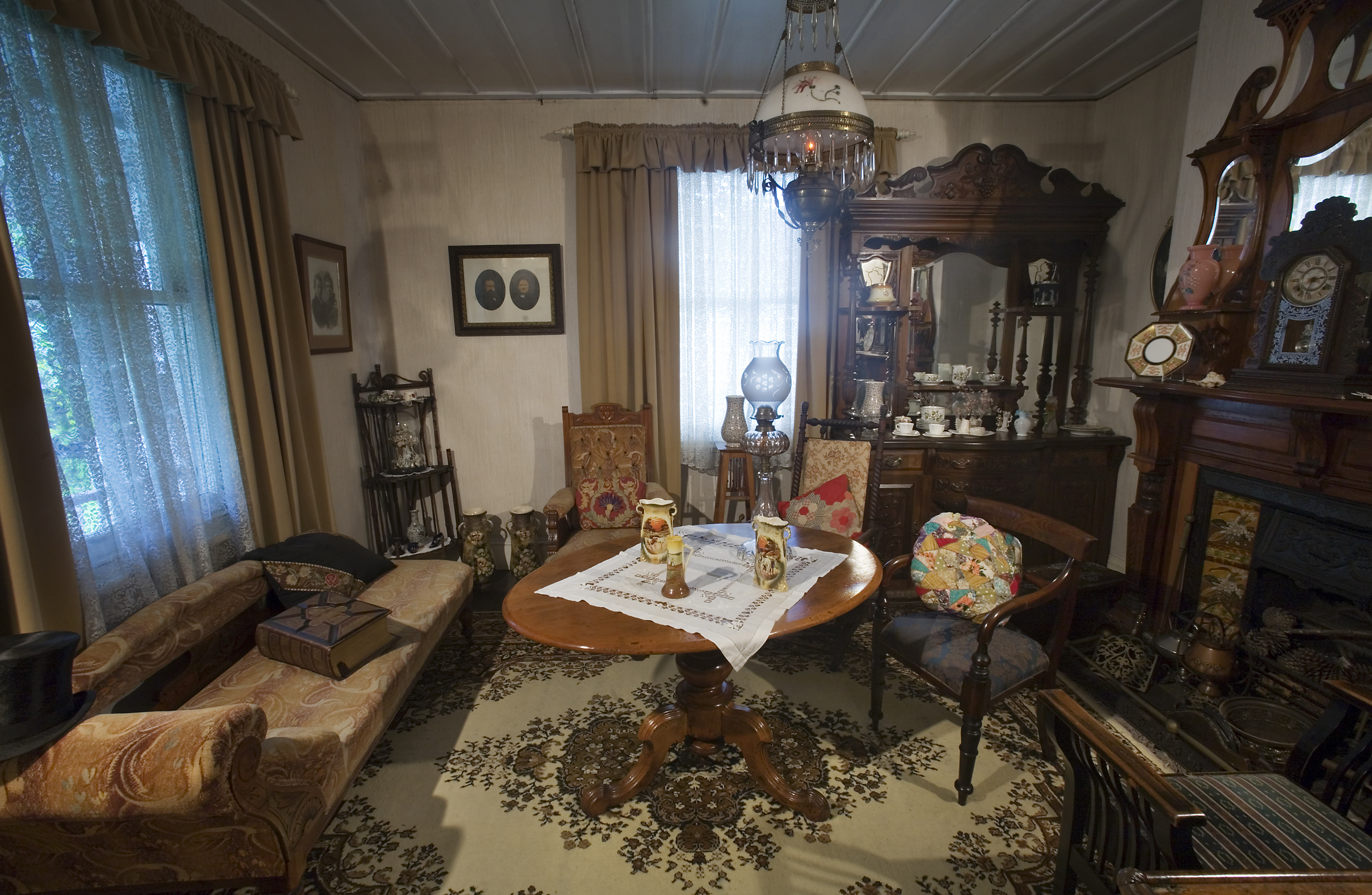 A 19th century living room with Victorian details. Victorian Village, Museum of Transport and Technology (MOTAT) , Auckland, New Zealand